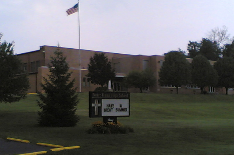 Portsmouth Notre Dame High School (formerly Portsmouth Central Catholic HS) in Portsmouth, Scioto County, Ohio, United States